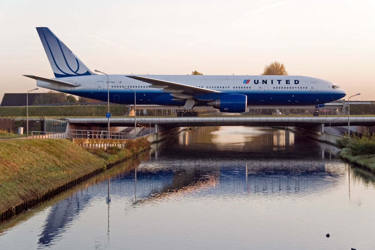 Early Saturday morning at the hoofdvaart between the polderbaan (18R) and the terminal. Boeing 777-222 Amsterdam schiphol [AMS / EHAM] 25-10-2008